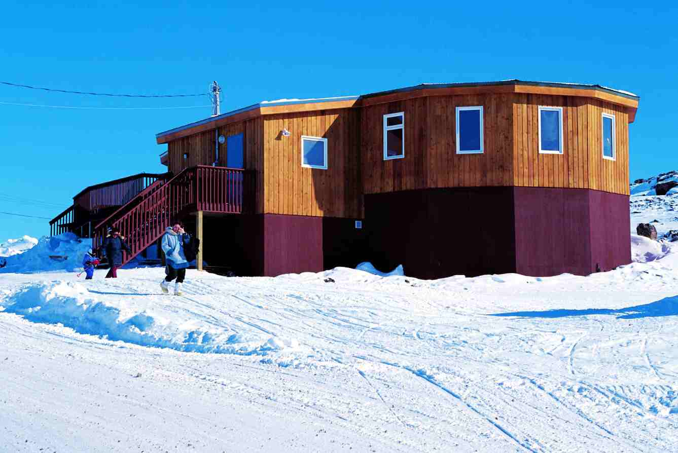 Day care building (Cape Dorset)